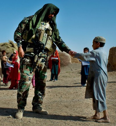 A Special Forces soldier, A Co., 1st Bn., 7th Special Forces Group gives an Afghan boy a coloring book in Kandahar Province, during a meeting with local leaders, Sept. 12, 2002. The SF team and Afghan commandos met with religious leaders to gain their support and obtain information about insurgents in the region. Special Forces soldiers, working with Afghan commandos in this region, often wear the Battle Dress Uniform to blend in with their Afghan counterparts. (Photo by Steve Hebert)